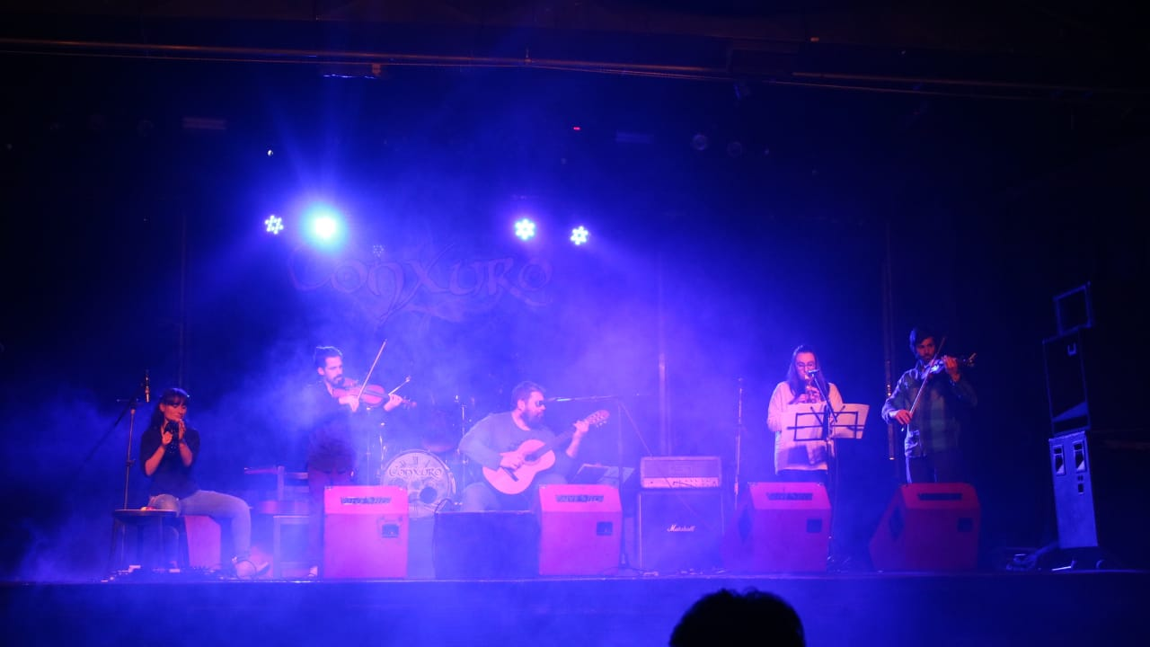 Ara solis performing at Abbey Road, Mar del Plata, july 2019.